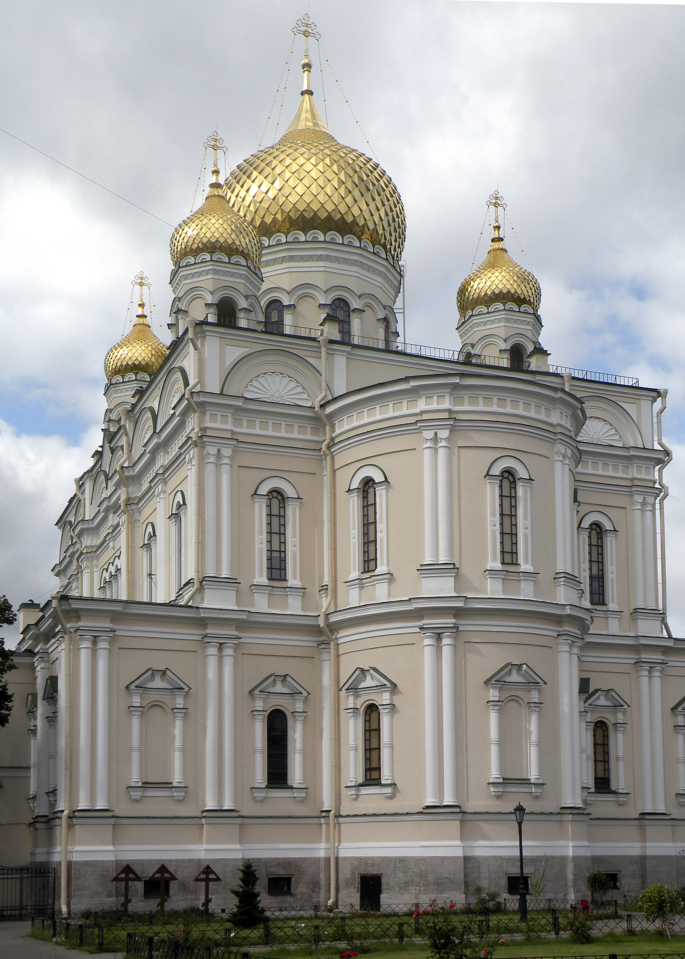 Saint Petersburg (Russia), Moskovsky Avenue.